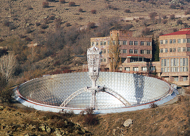 Orgov telescope (cutted)